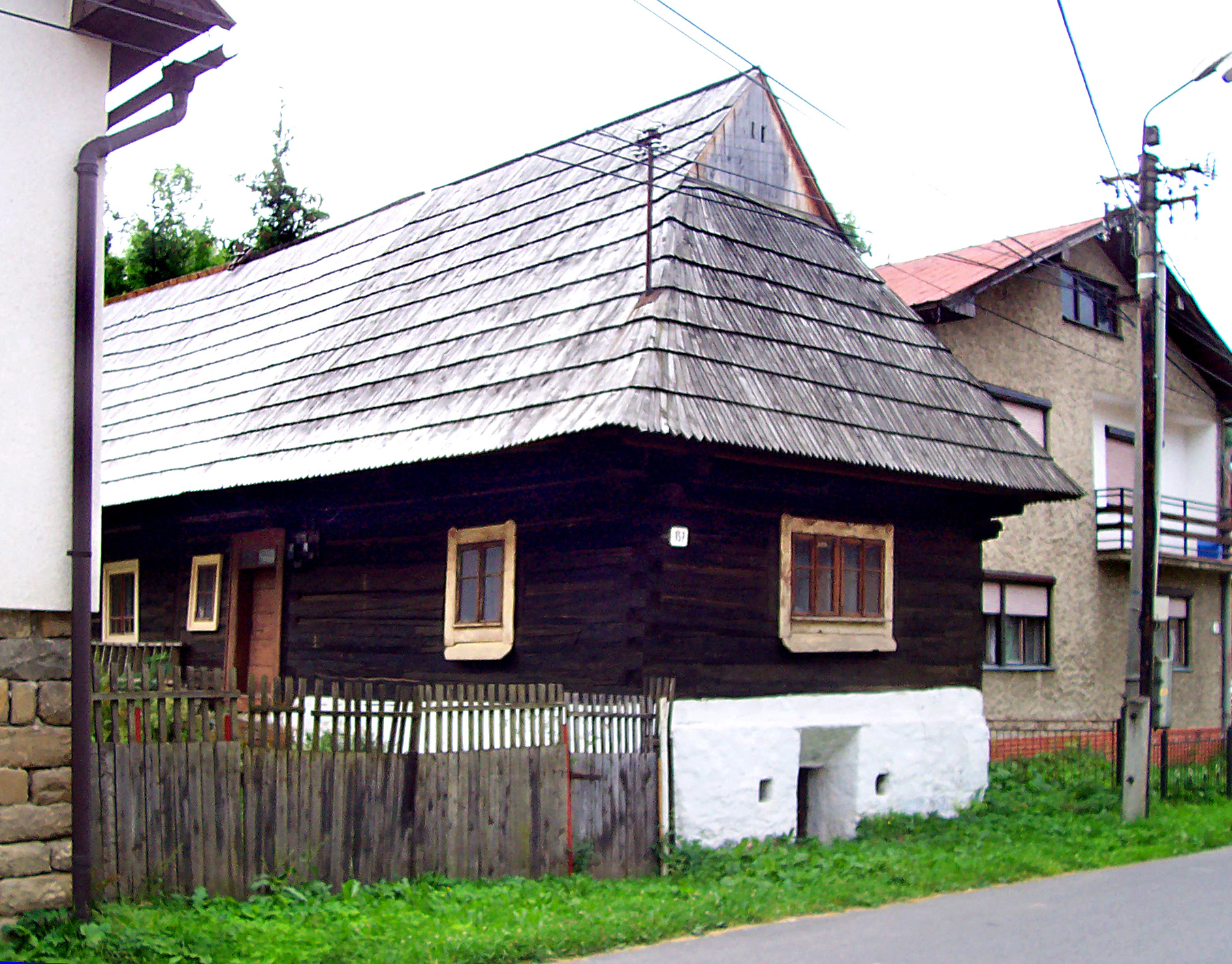 Habovka village. Orava, Slovakia